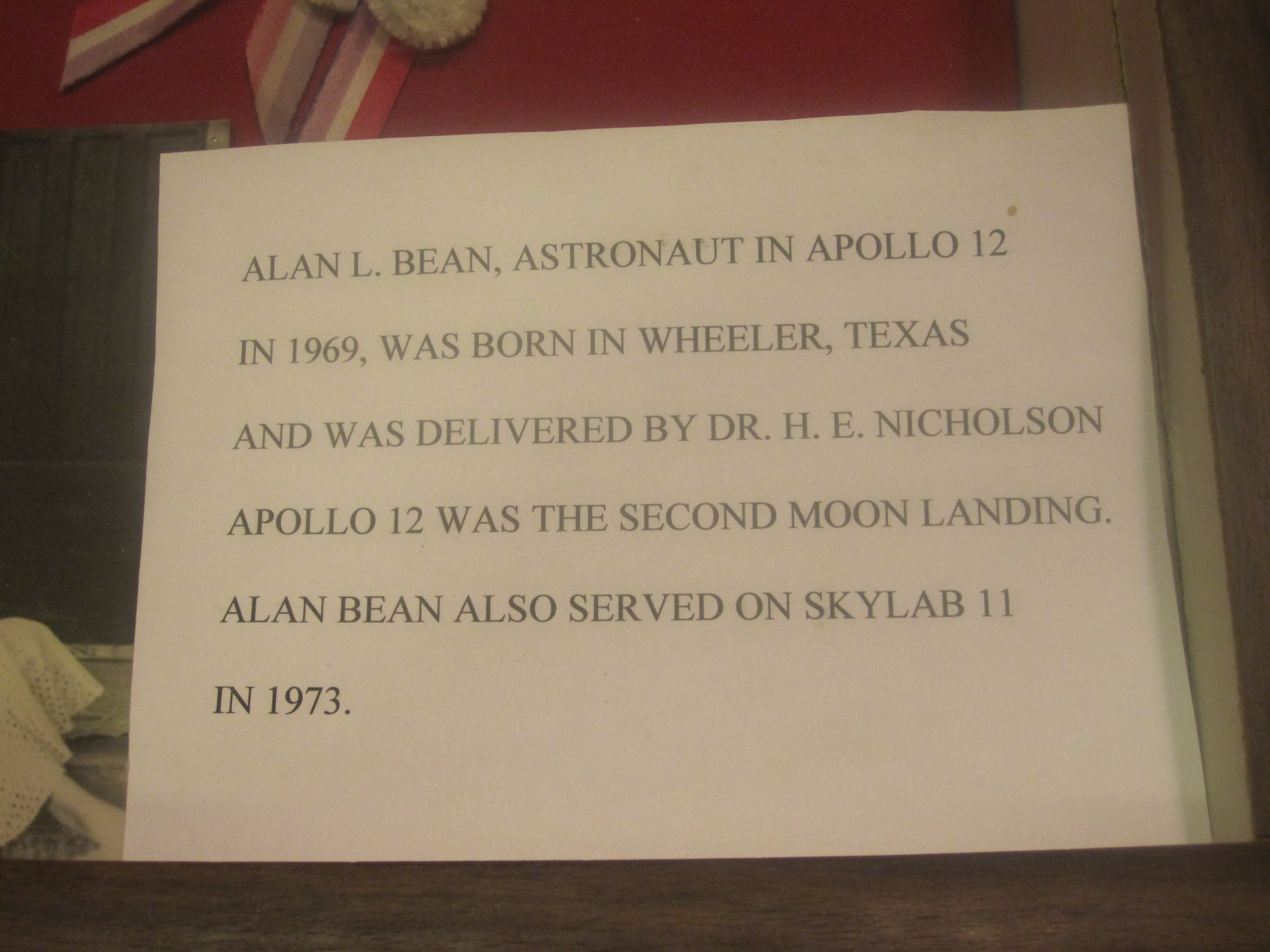 I took photo in Shamrock, TX, with Canon camera.